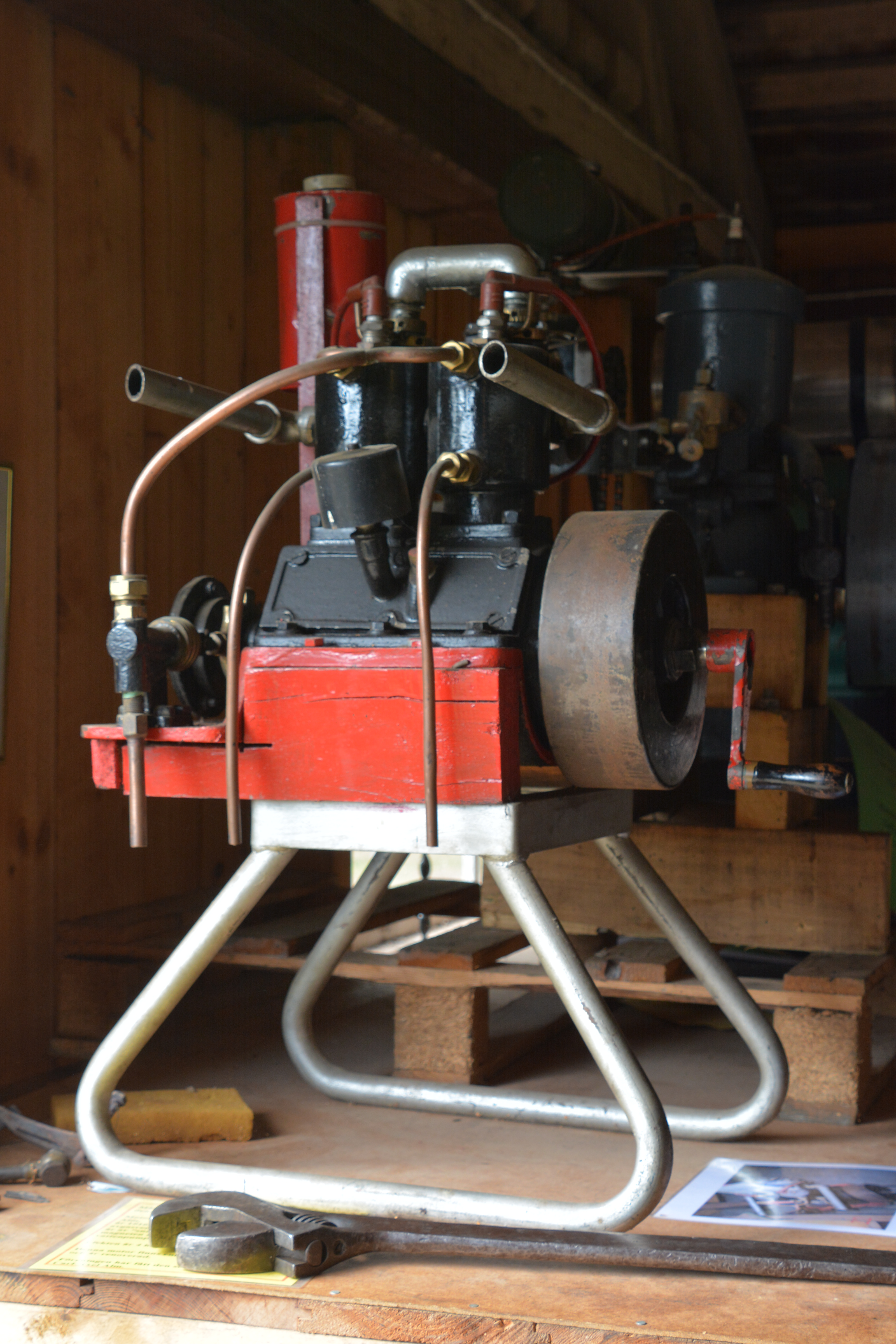 Prototype of petrol engine, constructed by Carl August Alm, Målilla mekaniska verkstad,1916. Målilla Motor Museum, Målilla, Hultsfred Municipality, Sweden.